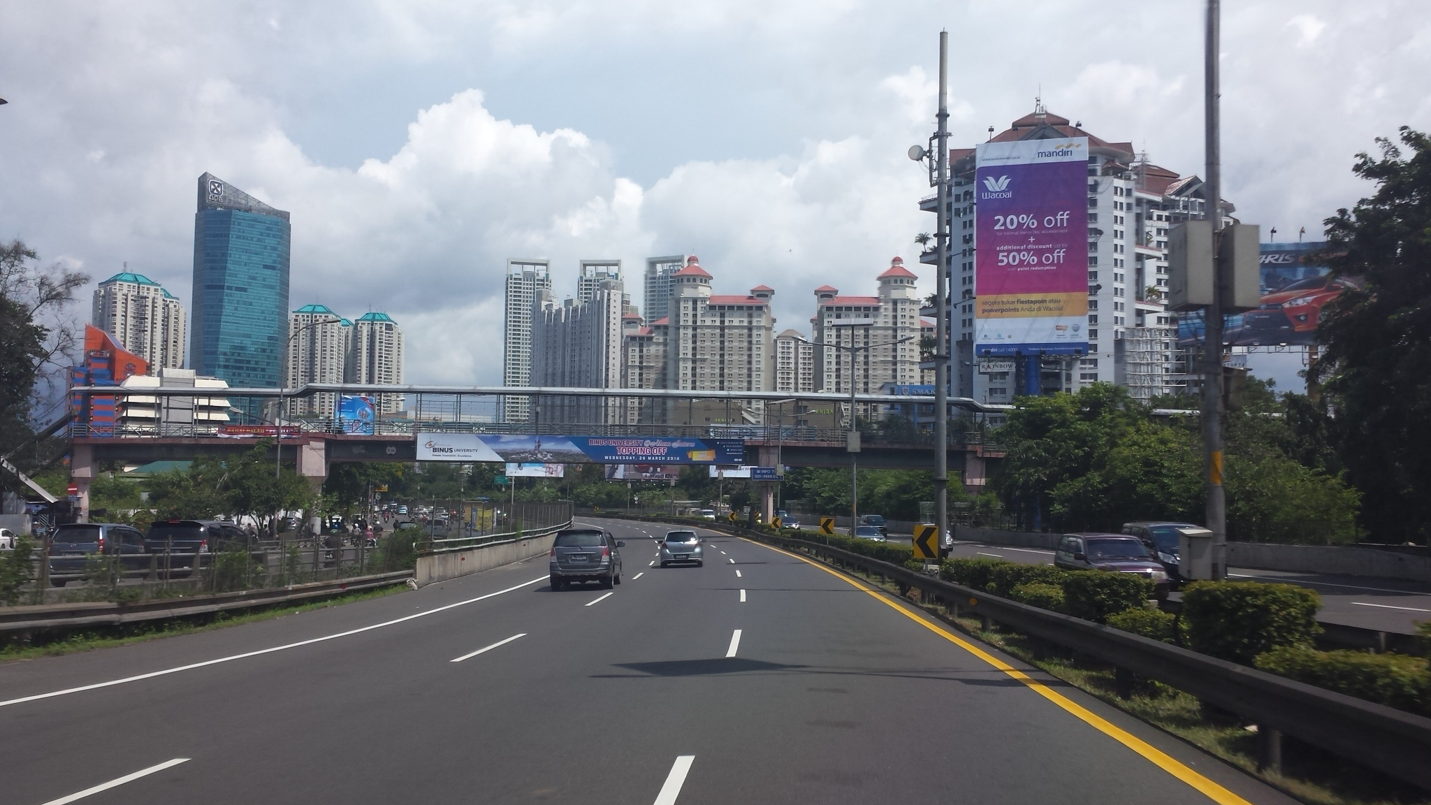 Toll Road section on Grogol Petamburan, Jakarta